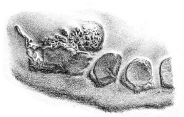 Drawing of detail of muscular scars on ventral view on the fragment of the shell of Pilina unguis, synonym Tryblidium unguis. Head region is on the left.